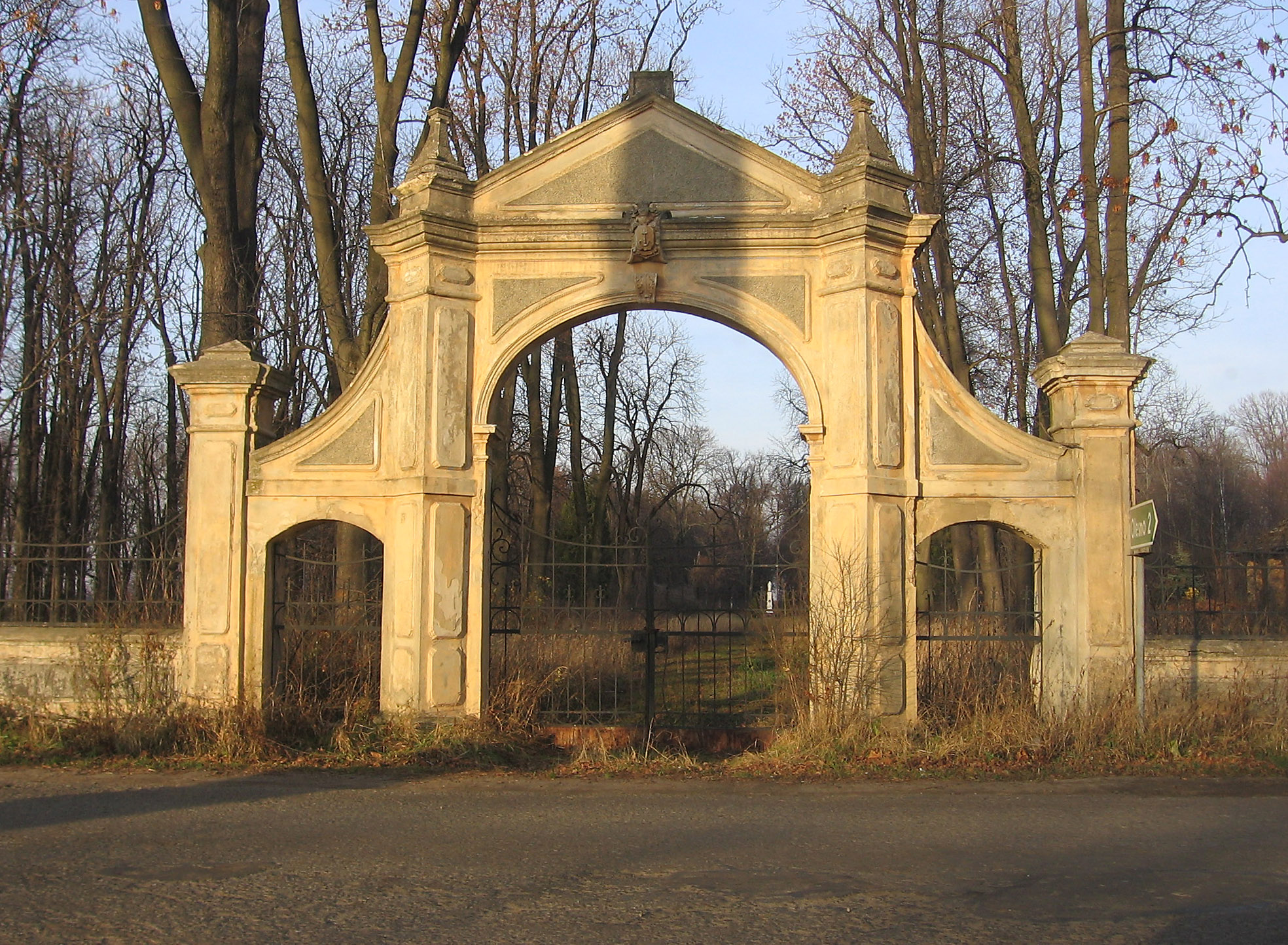 The entrance gate to Konopka's family manor in Podborze, Poland